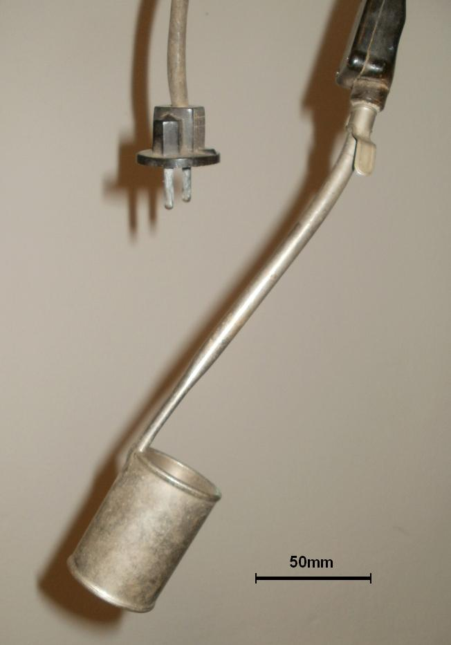 old immersion heater / boiler